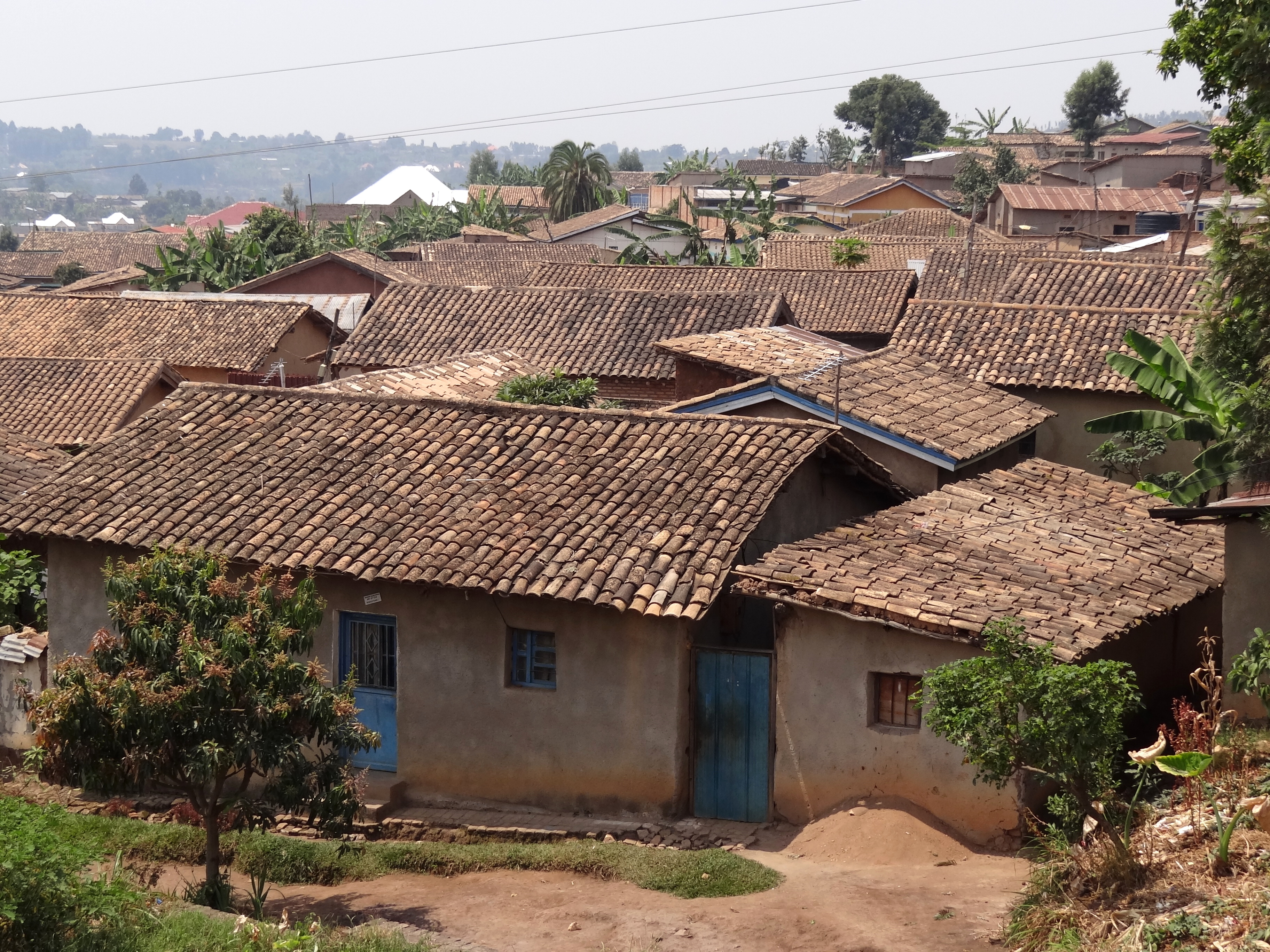 Colonial-Era Buildings with Tiled Roofs - Muhanga-Gitarama - Rwanda